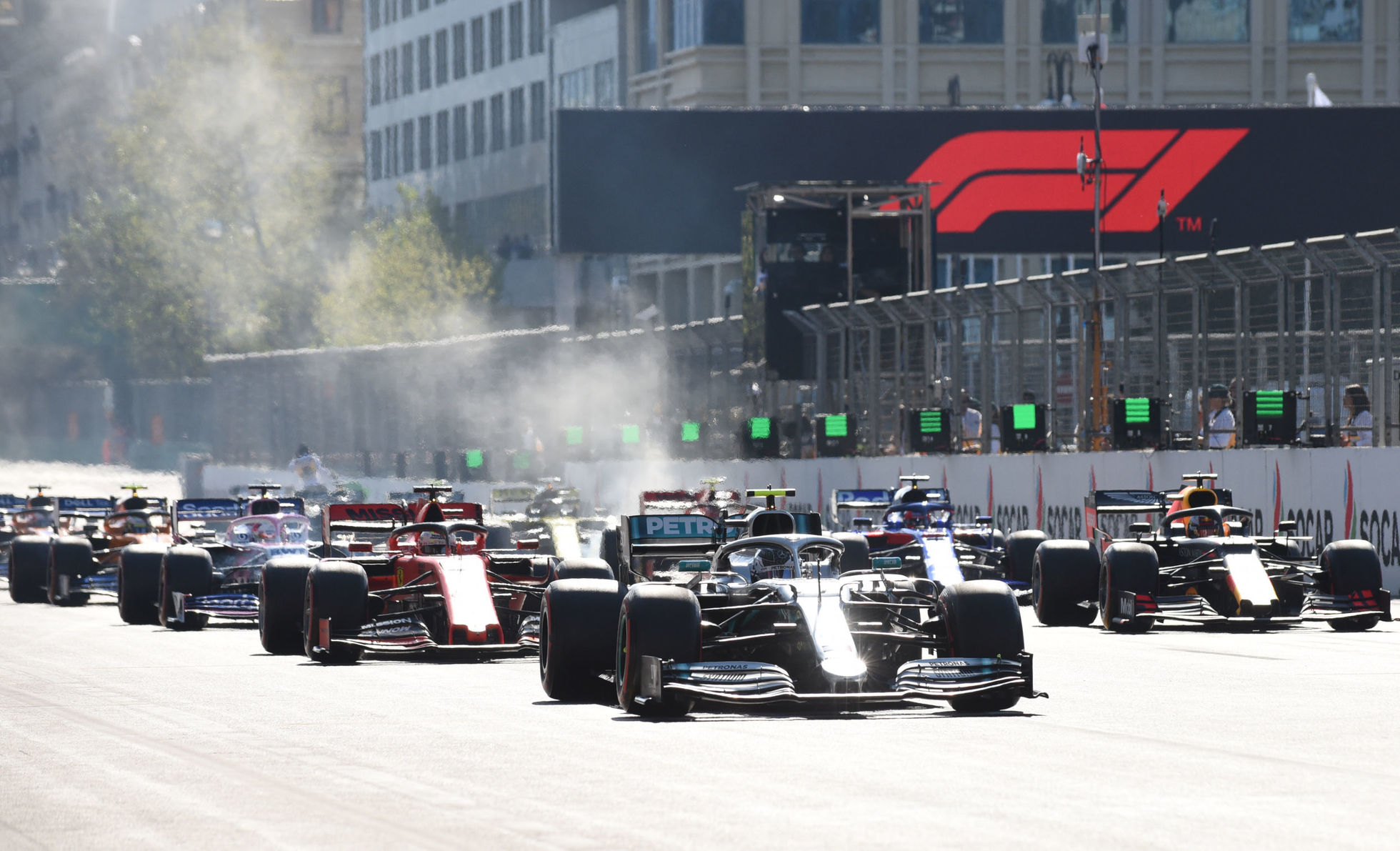 Ilham Aliyev watched the opening ceremony of the 2019 Formula-1 Azerbaijan Grand Prix and final race